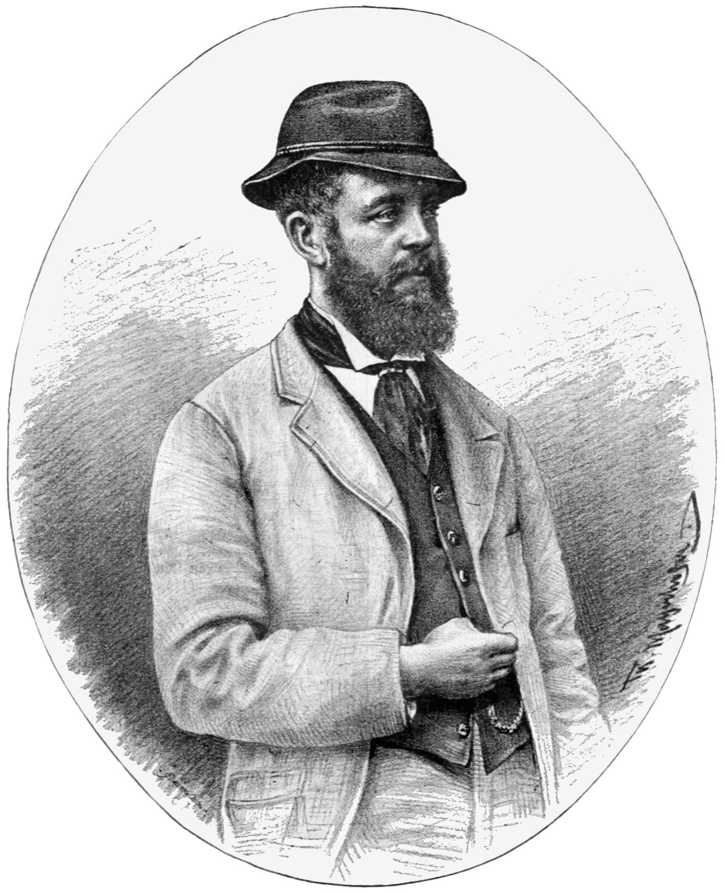 Nathaniel Meyer Freiherr von Rothschild (1836–1905), Austrian banker, art collector, writer and amateur photographer